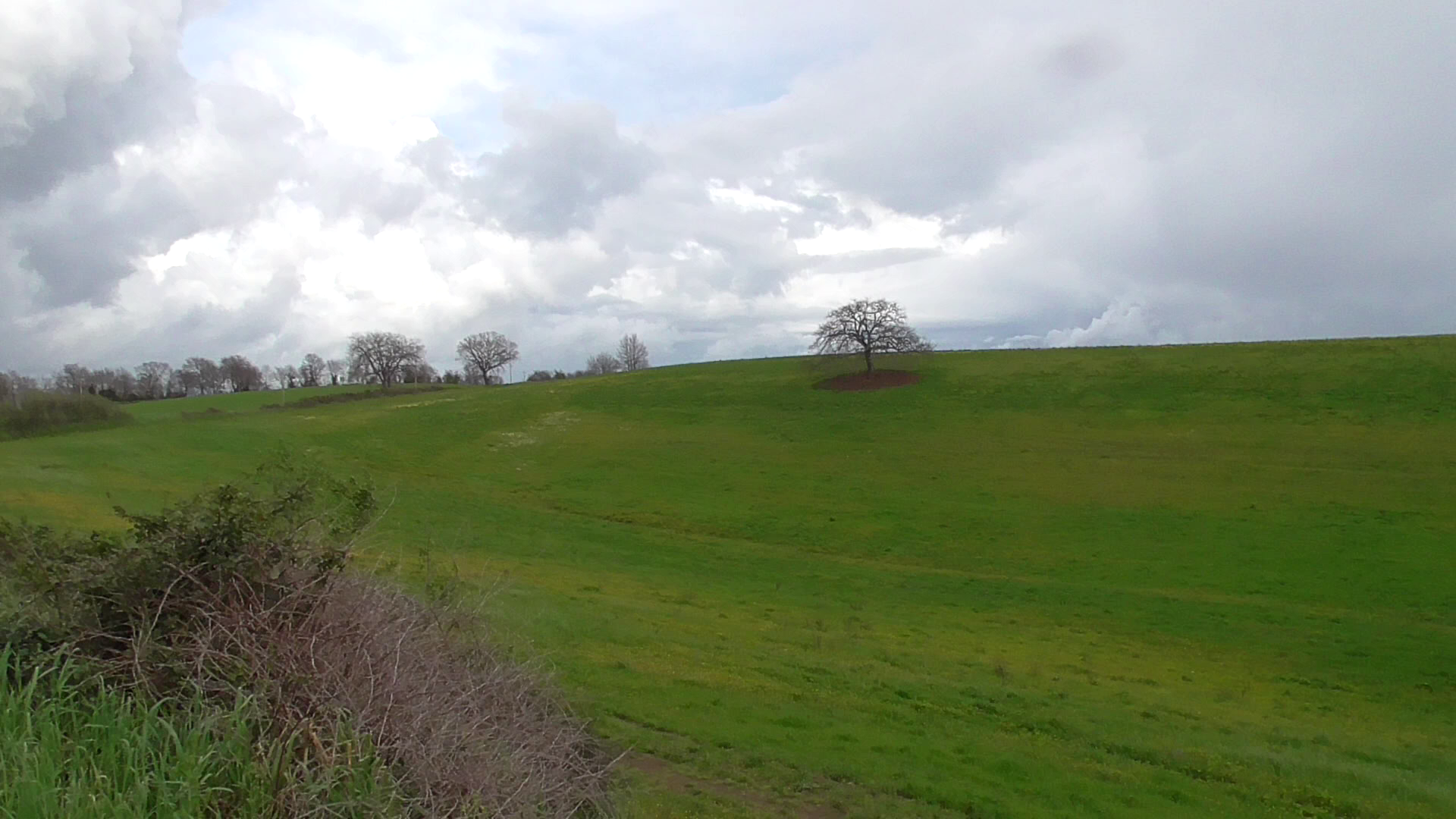 View of the Marcigliana